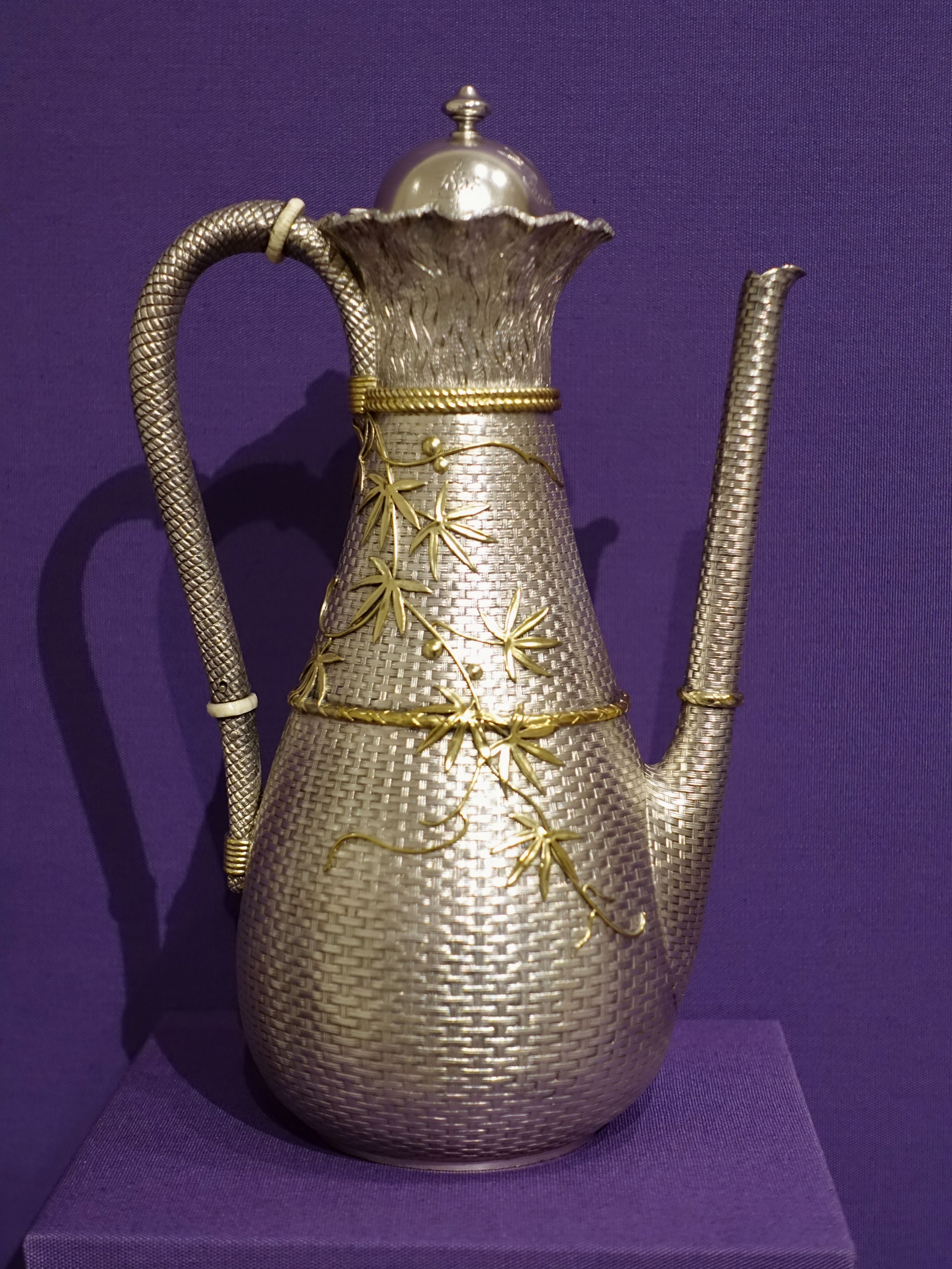 Exhibit in the Dallas Museum of Art, Dallas, Texas, USA.